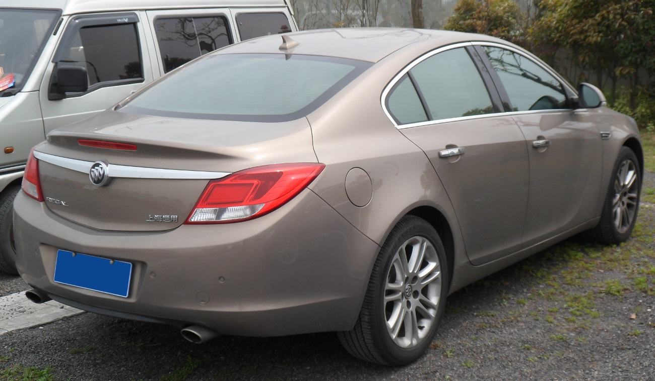 Buick Regal CN II photographed in Anting, Shanghai municipality, China.